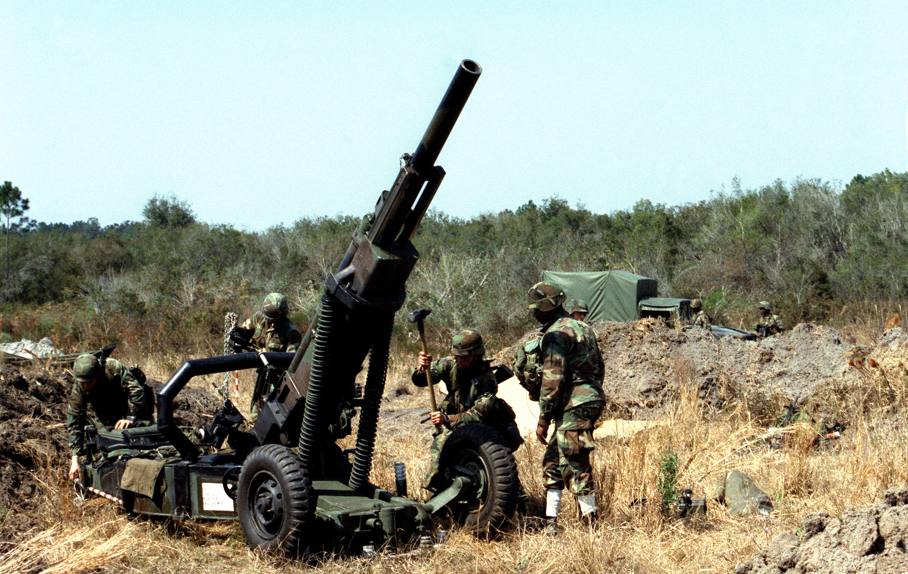 A member of a gun from the 82nd Airborne Division stakes down the baseplate of an M102 105 mm howitzer during Exercise SAND EAGLE '89.